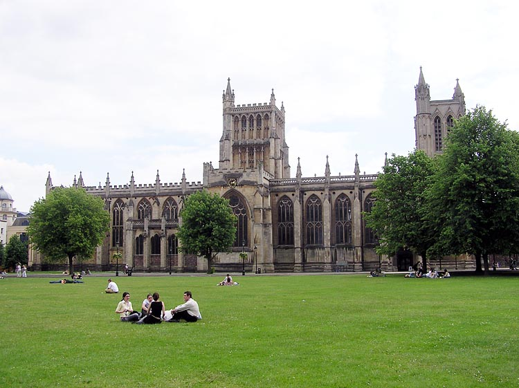 Bristol Cathedral, Bristol, England. The Abbey of Saint Augustine was the first building on the site, begun in 1140. In 1542 the abbey buildings were declared a cathedral by Henry VIII. Taken by Adrian Pingstone in June 2004 and released to the public domain.